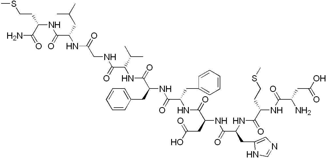 chemical structure of neurokinin B